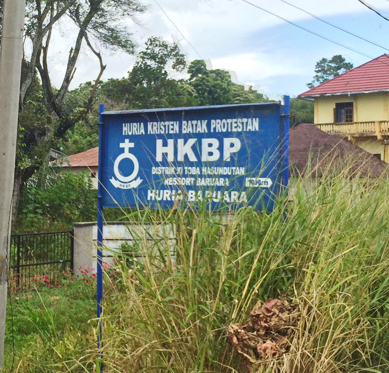 HKBP Baruara, Res. Baruara Church in Baruara, Balige, Toba Samosir